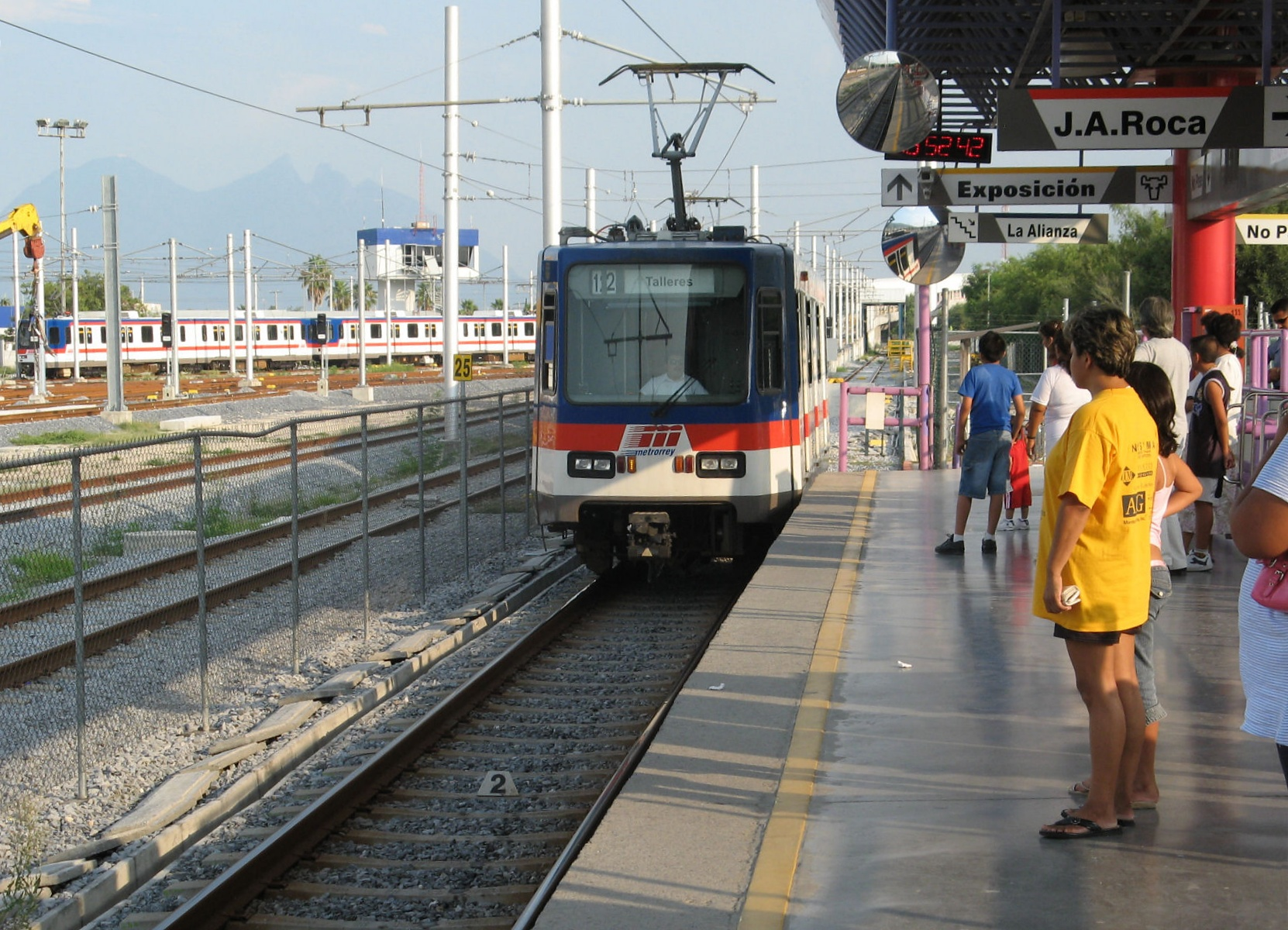 Arriving Train Talleres Station - Line 1 of the Monterrey Metro